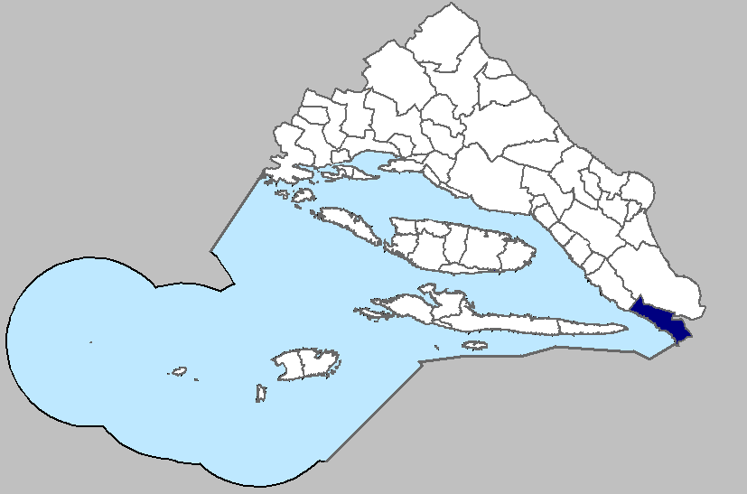 Self-made map of Gradac municipality within the Split-Dalmatia County.